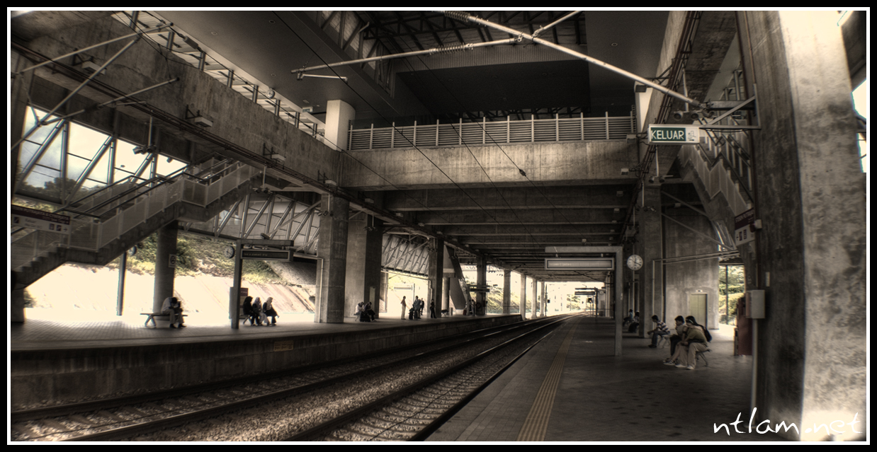 putraljaya erl waiting area